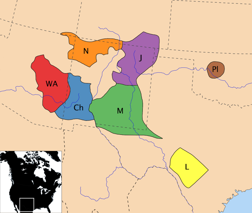 Apachean tribes ca. 18th century Abbreviations: WA (red map region) - Western Apache (Apacheeg ar c'hornôg) Tonto, Coyotero; N (orange map region) - Navajo; Ch (blue map region) - Chiricahua, Ndendahe, Mimbreño; M (green map region) - Mescalero; J (purple map region) - Jicarilla; L (yellow map region) - Lipan (Lipek); Pl (brown map region) - Plains Apache (Kataka c.d. "Kiowa Apache", Apacheeg ar c'hompezennoù). Present-day state and country borders are provided for reference.